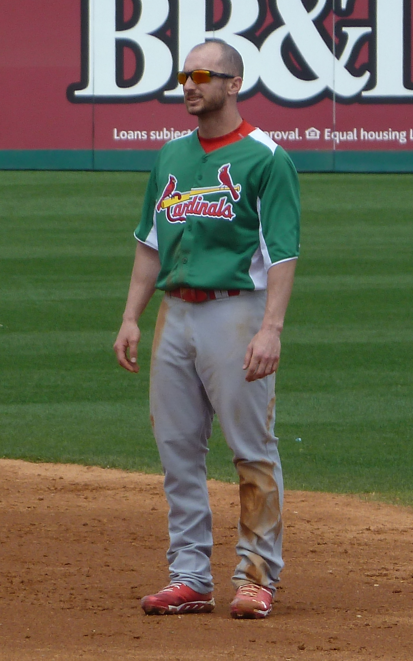 Shane Robinson, outfielder for the St. Louis Cardinals, in special St. Patrick's Day jersey. March 17, 2013, Roger Dean Stadium, Jupiter, Florida.